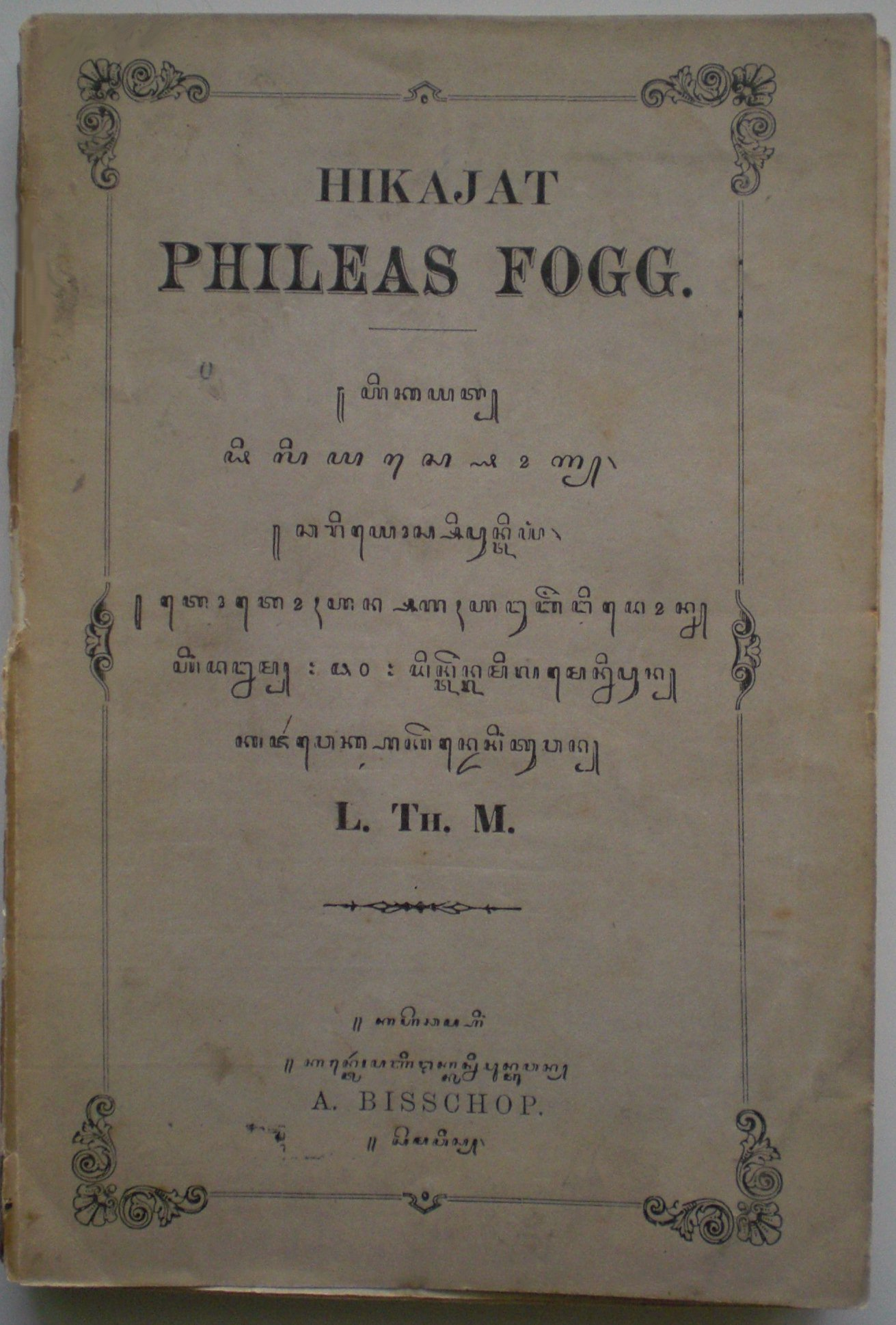 Book cover